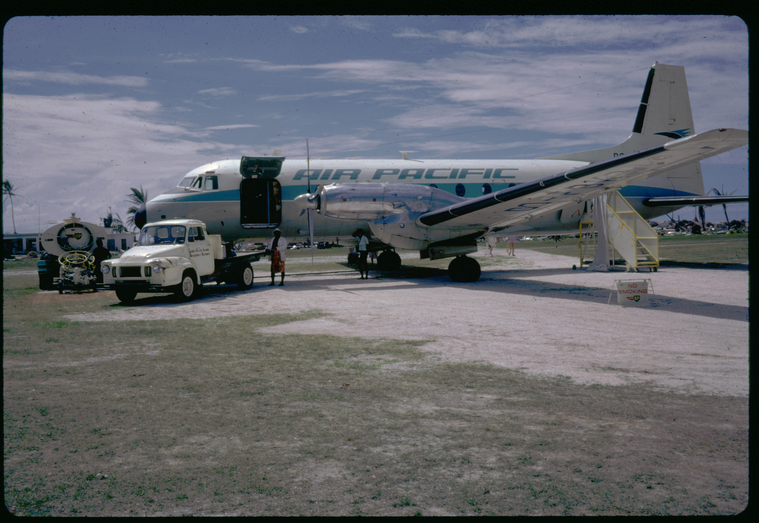 Air Pacific HS748 (DQ-FBK) at Funafuti Airport, Tuvalu